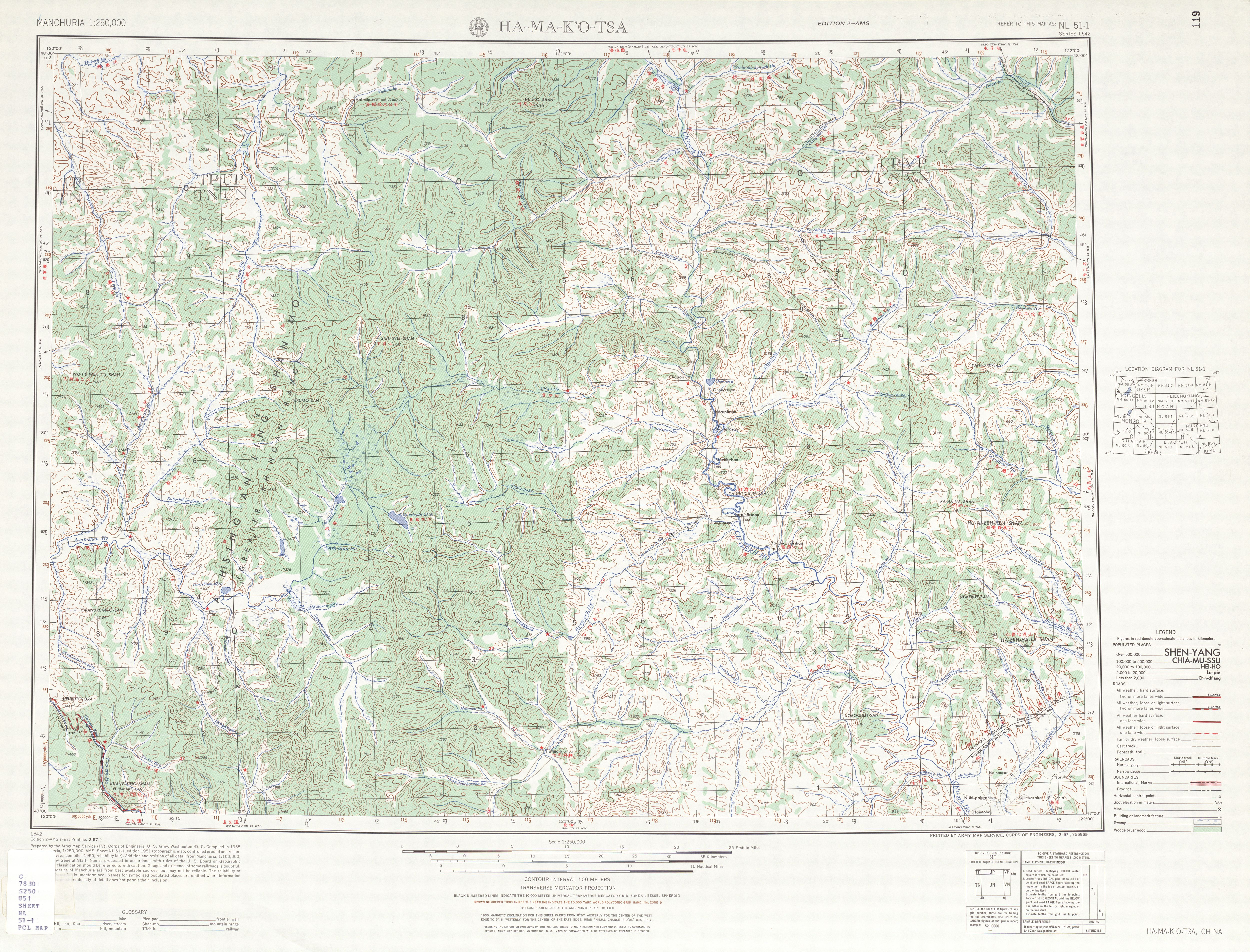 Manchuria AMS Topographic Maps